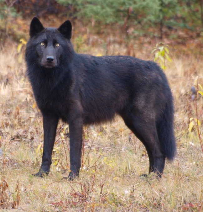 Black wolf, in Lower Post Indian Reserve, British Columbia, CA.